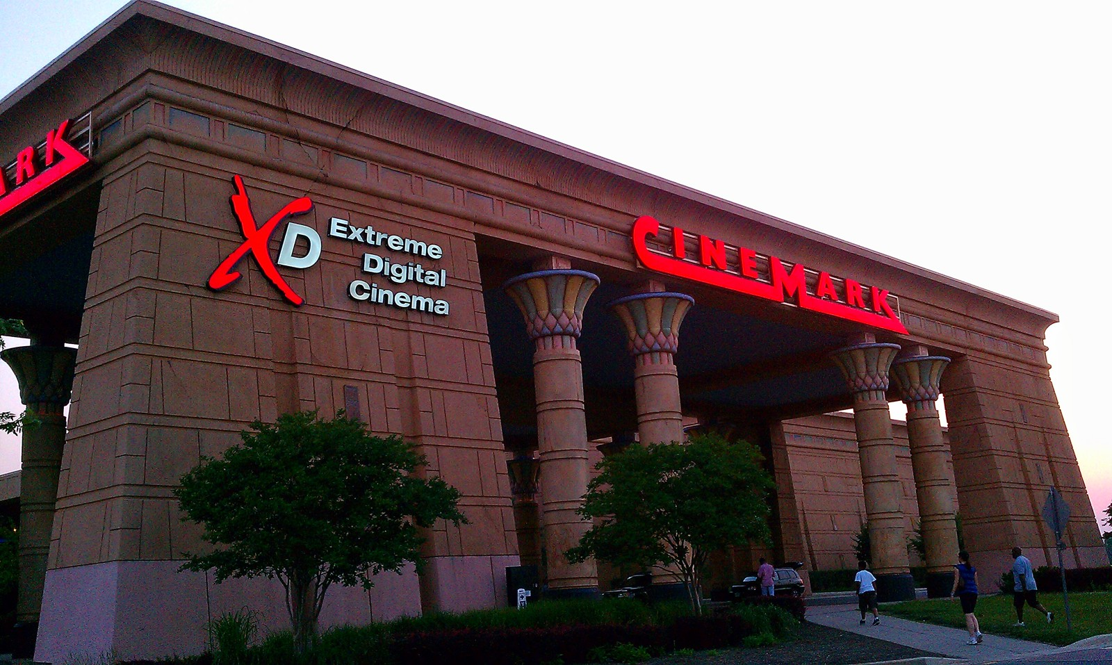 The impressive Egyptian-themed entrance to the Cinemark Egyptian 24 movie theaters located at Arundel Mills Mall.